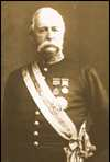 Major-General Sir Harry St. George Ord (4 August 1819 – 20 August 1885) when he was the Governor of Western Australia from 12 November 1877 to 9 April 1880.